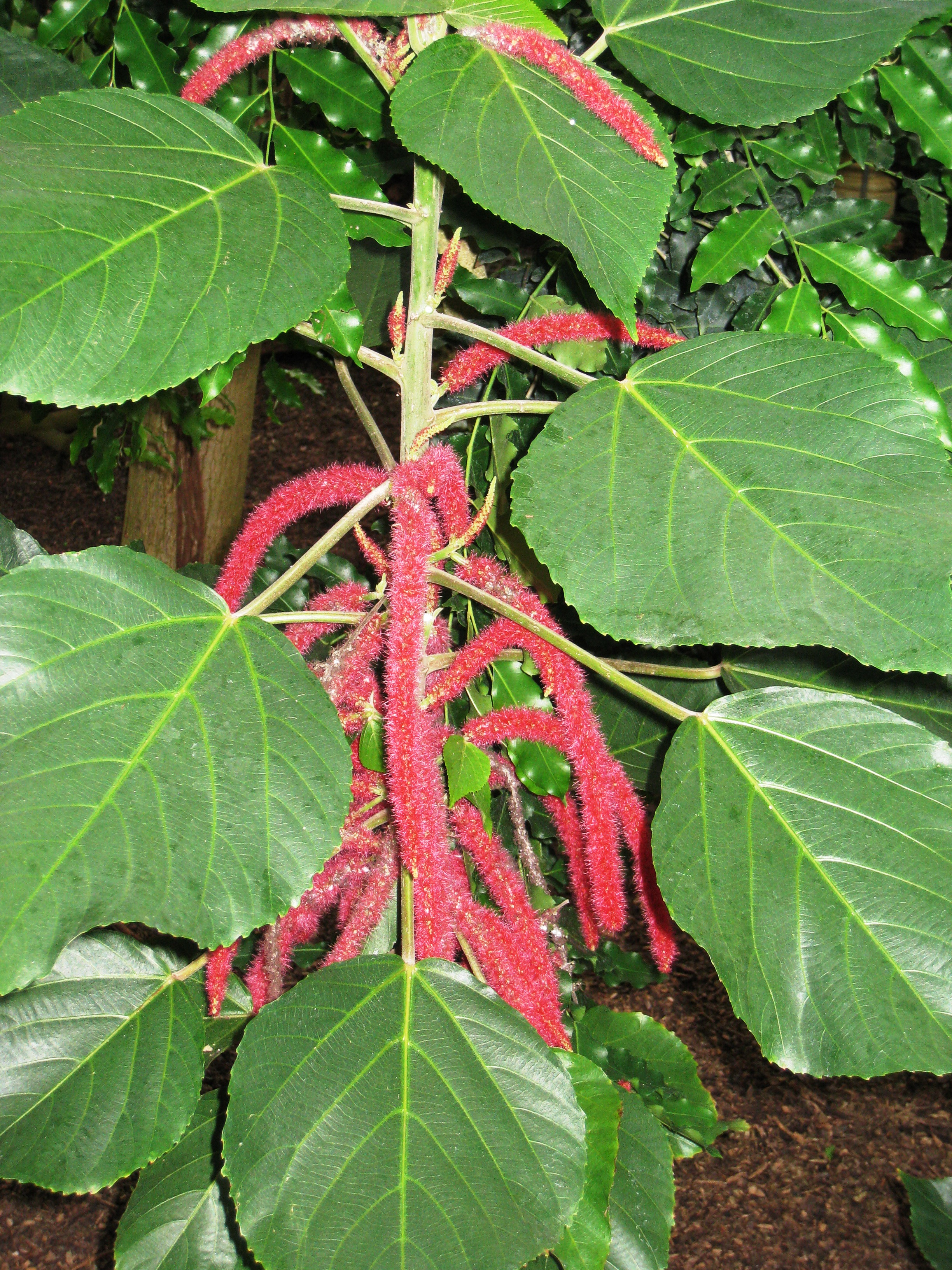 Specimen in cultivation at the Botanical Garden, University of Copenhagen, Denmark.